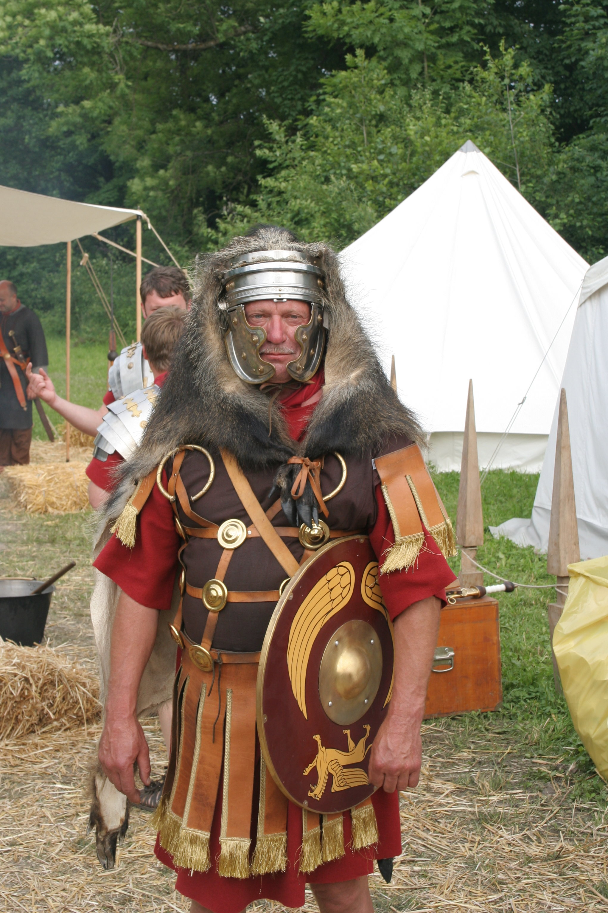 Roman aqulifer (scutum) 70 a.C. Photographed by myself during a show of Legio XV from Pram, Austria